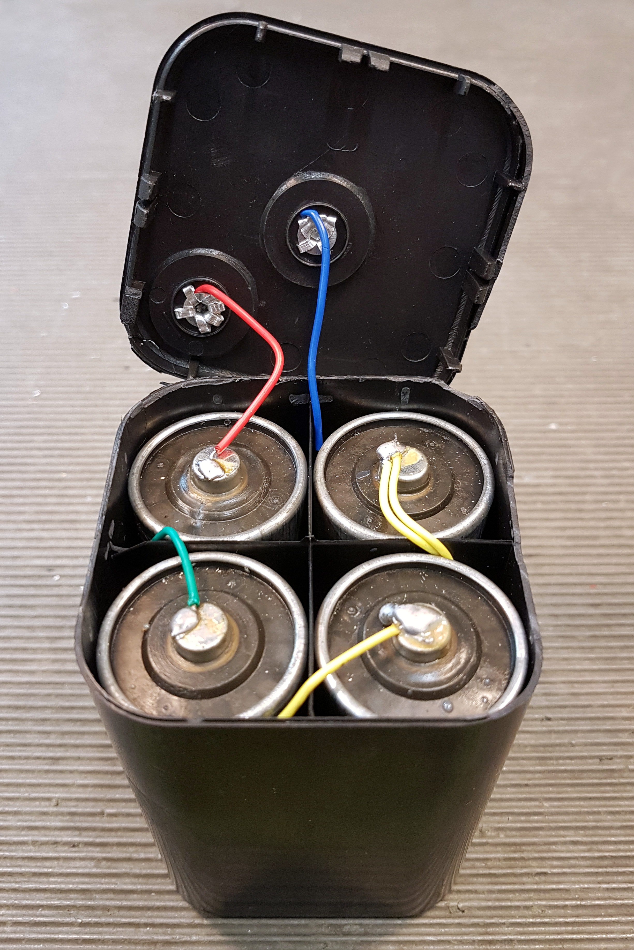 Lantern batterie inside with 4 cells